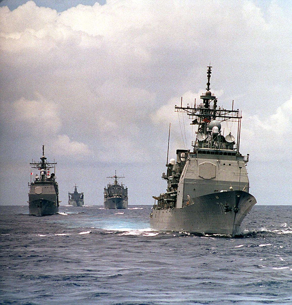 Pacific Ocean (Foreground to back) the U.S. Naval ship USS Lake Erie (CG 70), USS Chosin (CG 65), USS Mount Hood (AE 29), and USS Cimarron (AO 177) conduct operations in the Pacific Ocean. The ships are part of the aircraft carrier USS Constellation battle group enroute to the Arabian Gulf to enforce no-fly zones and monitor shipping to and from the region.